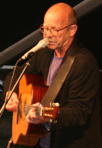 Jonas Fjeld performing in Brønnøysund, Norway.